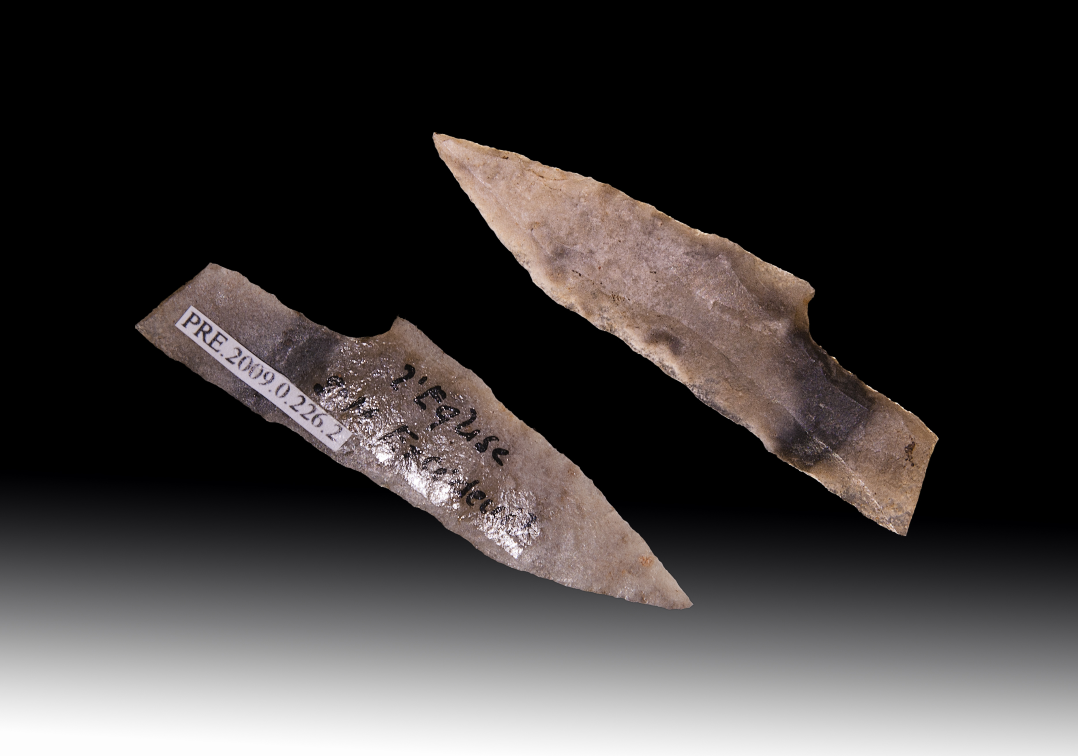 Side notched point - Different views of the same specimen.